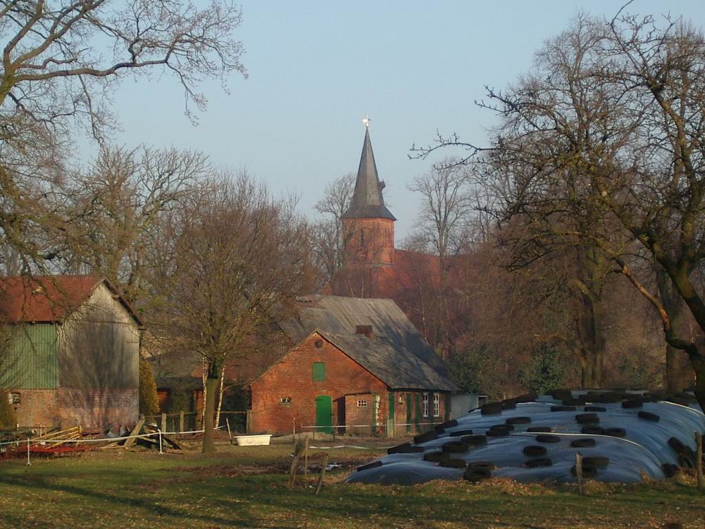 Photo taken by User:Geoz December 2005 Panorama von Wester-Wanna